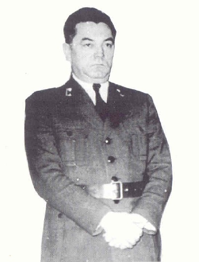 Croatian Minister Andrija Artuković.